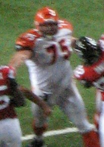 Shayne Graham kicks the extra point for Cincinnati in preseason game against Atlanta Falcons